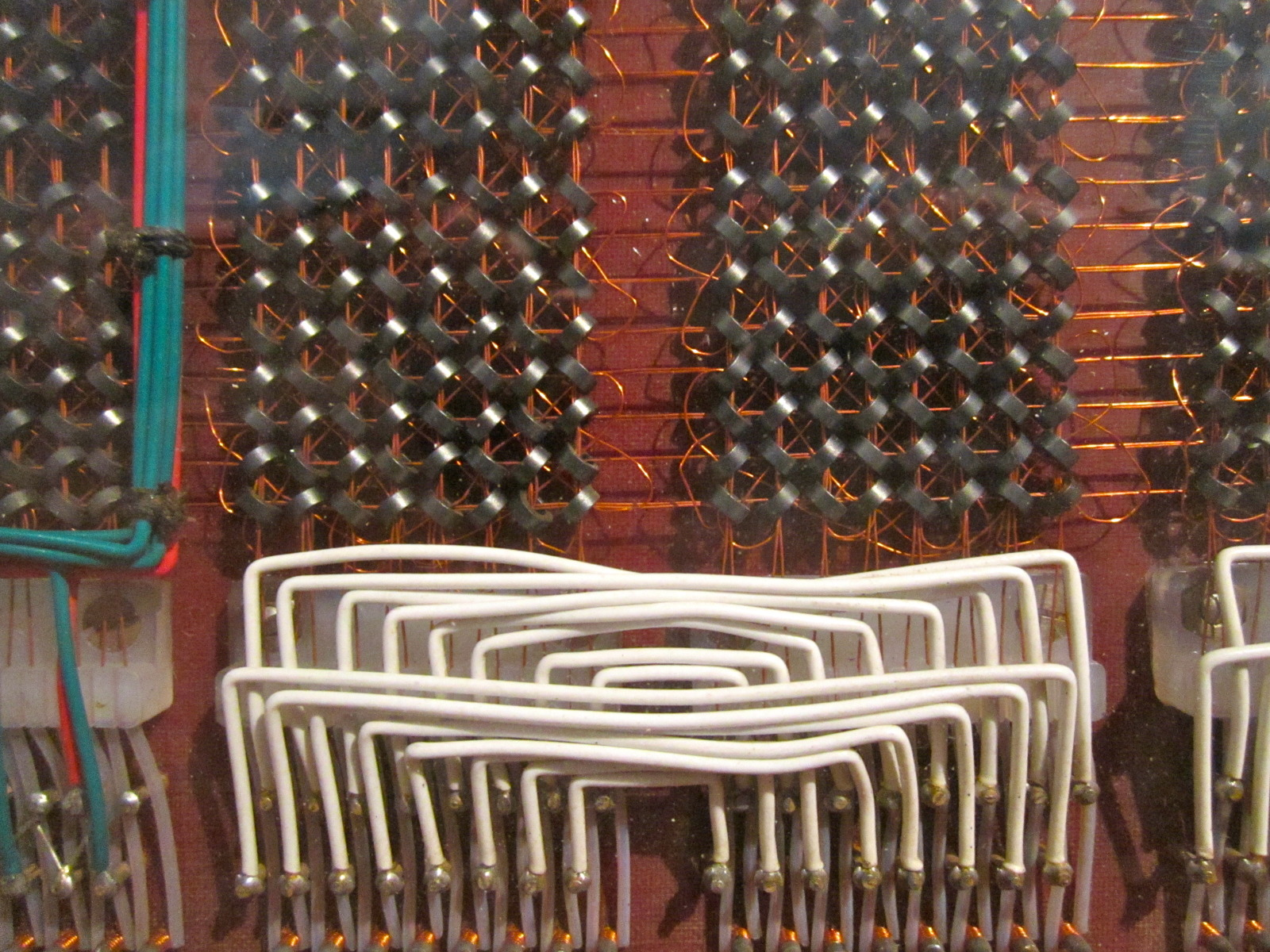 Detail of the 1Kb RAM module of the 1960s era Electrologica X1 computer formerly used at the Rijksuniversiteit Utrecht. The detail is showing a number of the ferrite core rings and part of the wiring. The entire module was fitted in a wooden frame, measuring about 40x40 centimetres.